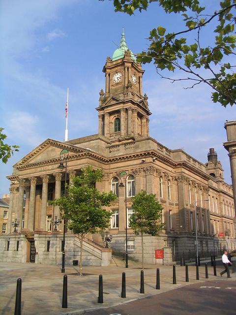 Wirral Museum/ old Town Hall, Birkenhead